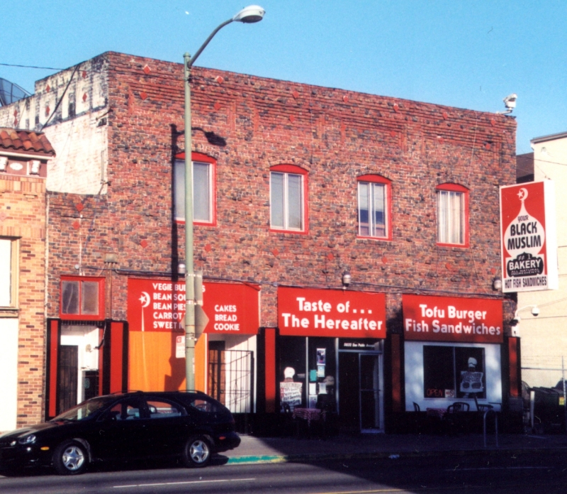 Exterior of Your Black Muslim Bakery #1, formerly on San Pablo Avenue in Oakland, California.